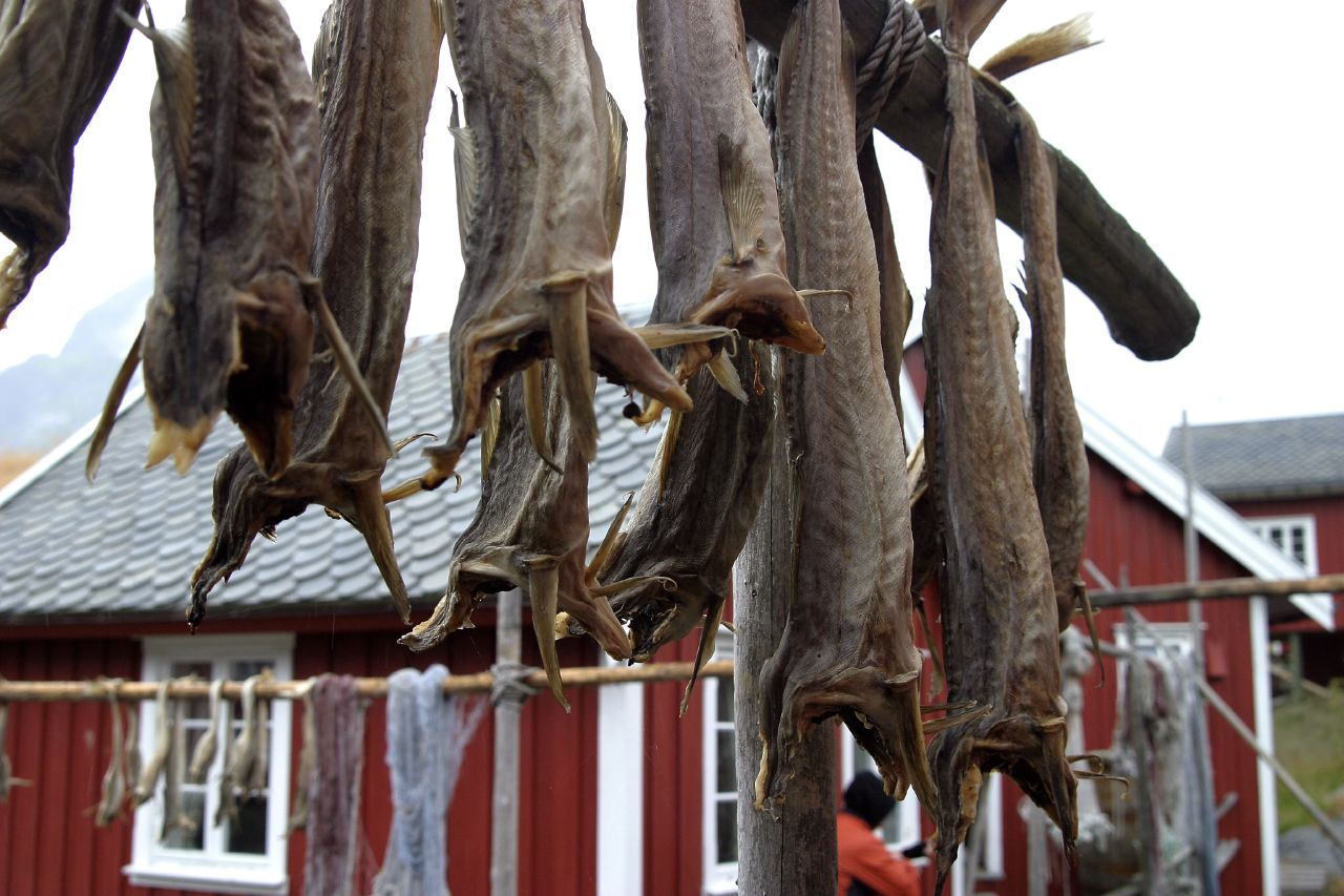 Stockfish in Norways